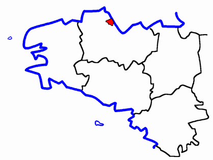 Map for localization of cantons of Bretagne region in France